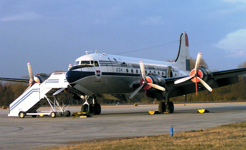 Douglas DC-4 Flying Dutchman from the Dutch Dakota Association. Details about the picture on the original wikipedia. Douglas DC-4 in Mönchengladbach